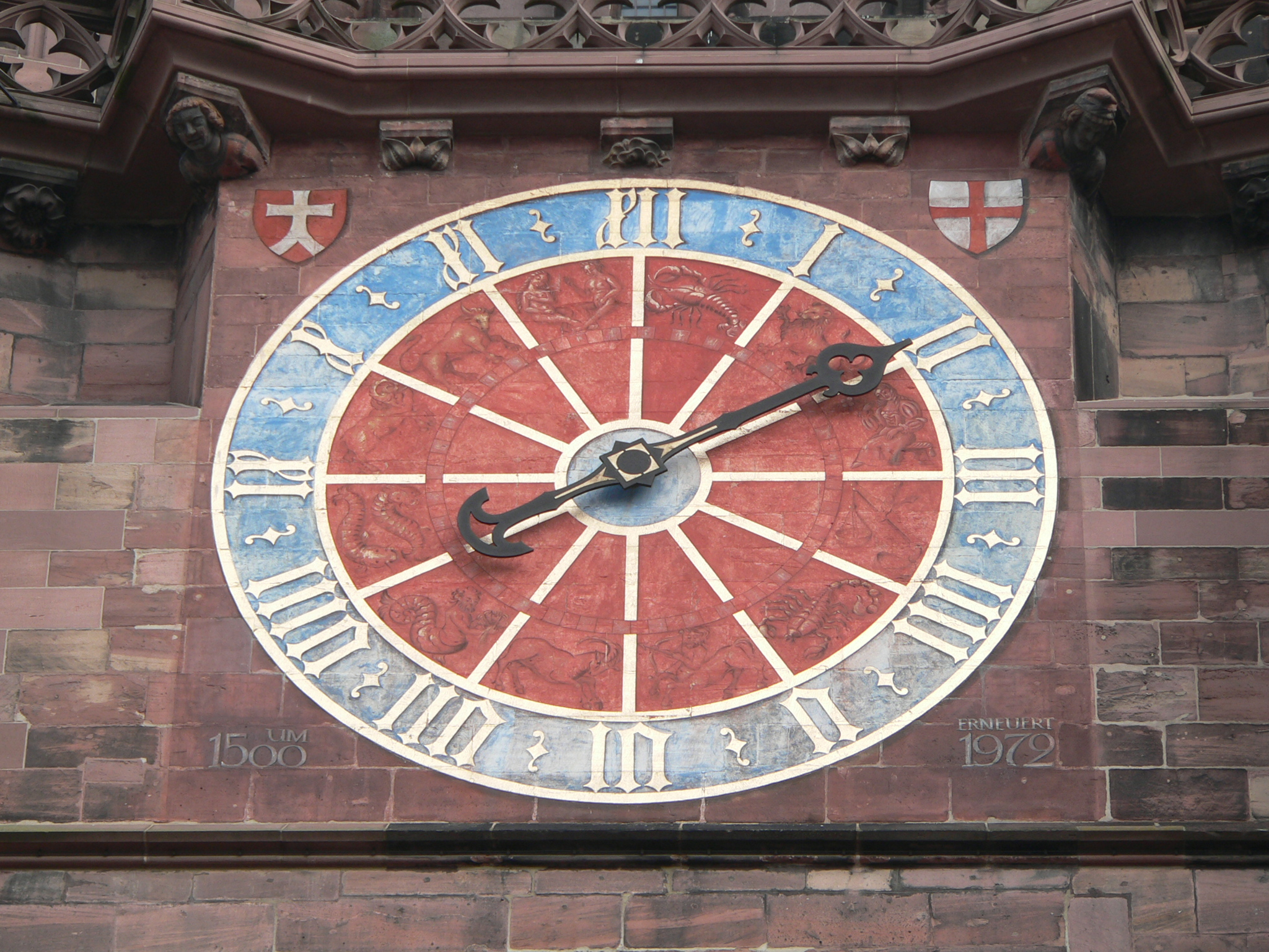 Clock of the Münster in Freiburg, Germany